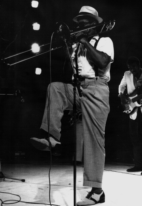 American bandleader and jazz fusion trombonist Joseph Bowie in Paris, France